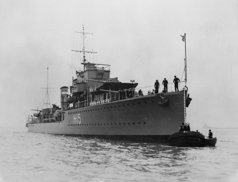 Photograph of British E class destroyer HMS Esk.